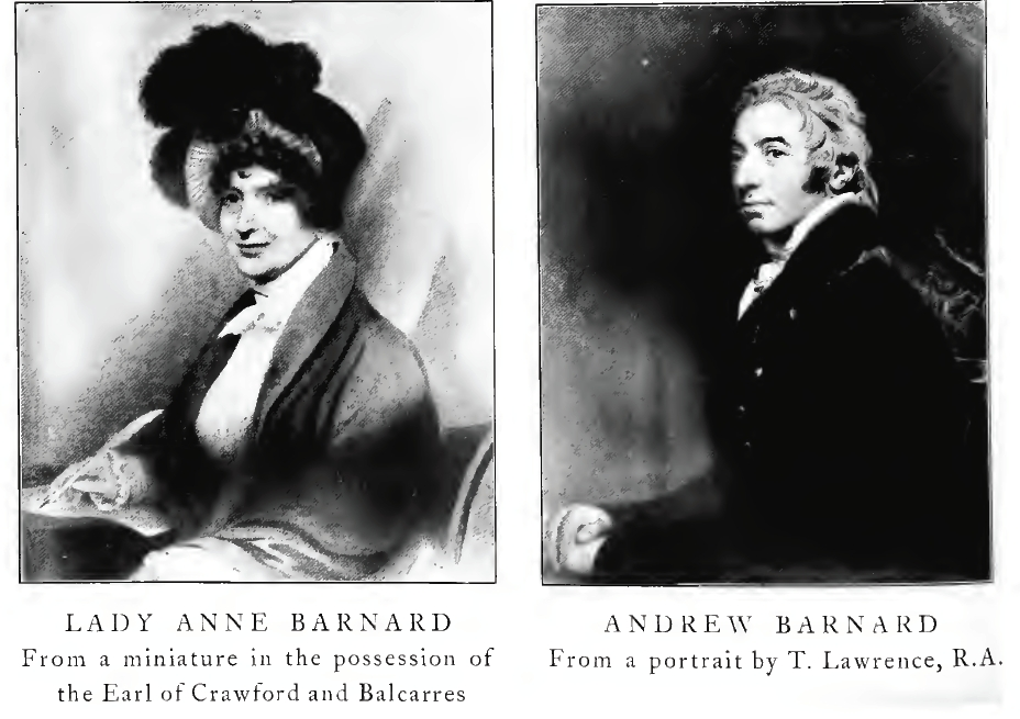 Lady Anne barnard and her husband Andrew Barnard